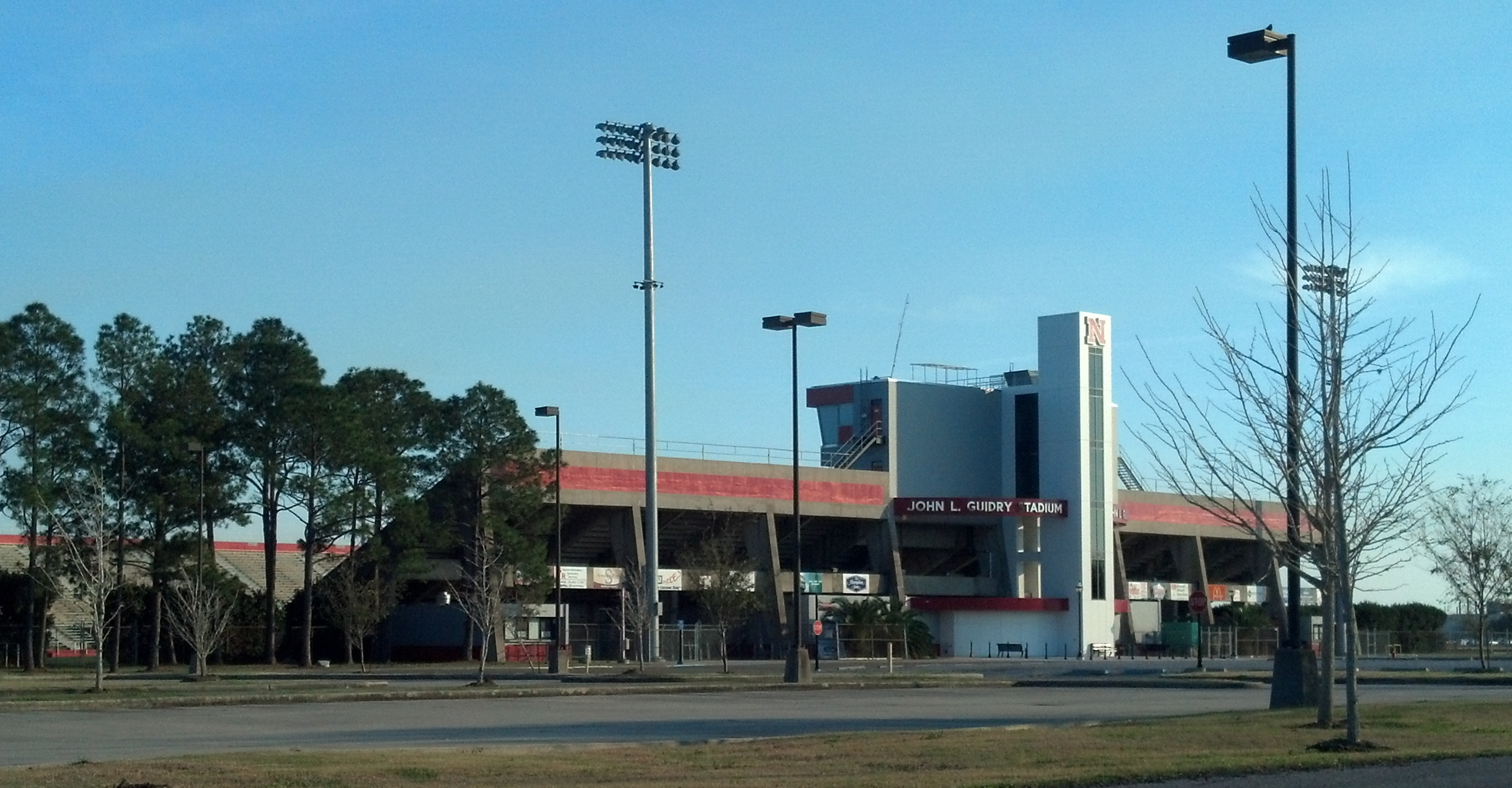 Manning Field at John L. Guidry Stadium (Thibodaux, Louisiana, USA)